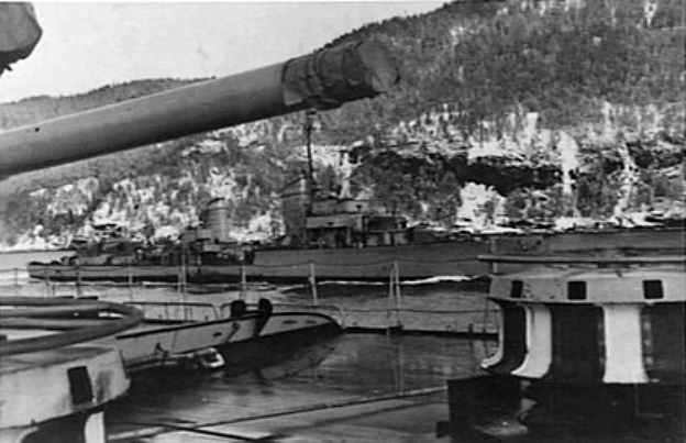 A German destroyer escorting the heavy cruiser Admiral Hipper. The Hipper and the four destroyers Z 5 Paul Jacobi, Z 6 Theodor Riedel, Z 8 Bruno Heinemann and Z 16 Friedrich Eckholdt transported 1.200 troops of the Gebirgsjäger-Regiment 138 (138th Mountaineer Regiment) to Trondheim, Norway, in April 1940. Note: In the original description the destroyer is identified as Z 2 Georg Thiele which was not part of the Hipper screen, but scuttled at Narvik. At the given date (July 1940), Hipper was operating in the Atlantic Ocean.